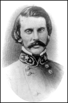 Portrait of William Steele (1819-1885)